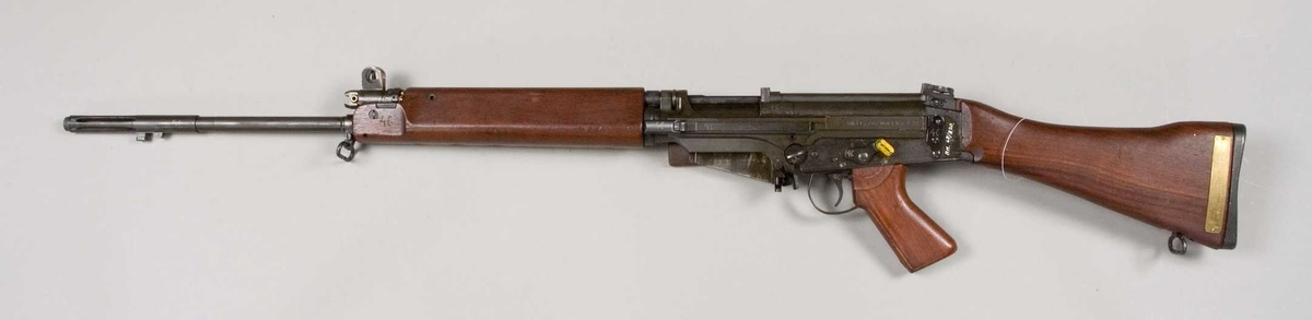 The FN FAL battle rifle, Canadian version, under the designation C1A1. This specimen (manufactured in 1960 by Canadian Arms, Long Branch factory) was used by the Swedish Army Administration between 1960 and 1964 for evaluation. In the end, the Heckler & Koch G3 (Ak 4) was selected as the new service rifle for the Swedish Armed Forces in 1964. The rifle was donated to the Swedish Army Museum in 1968.